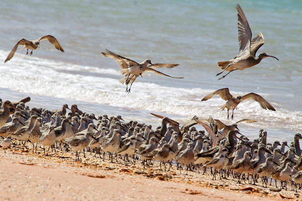 Waders, mostly Calidris tenuirostris, also some Limosa lapponica and Charadrius sp., and one Numenius phaeopus, roosting at high tide in Roebuck Bay in Western Australia